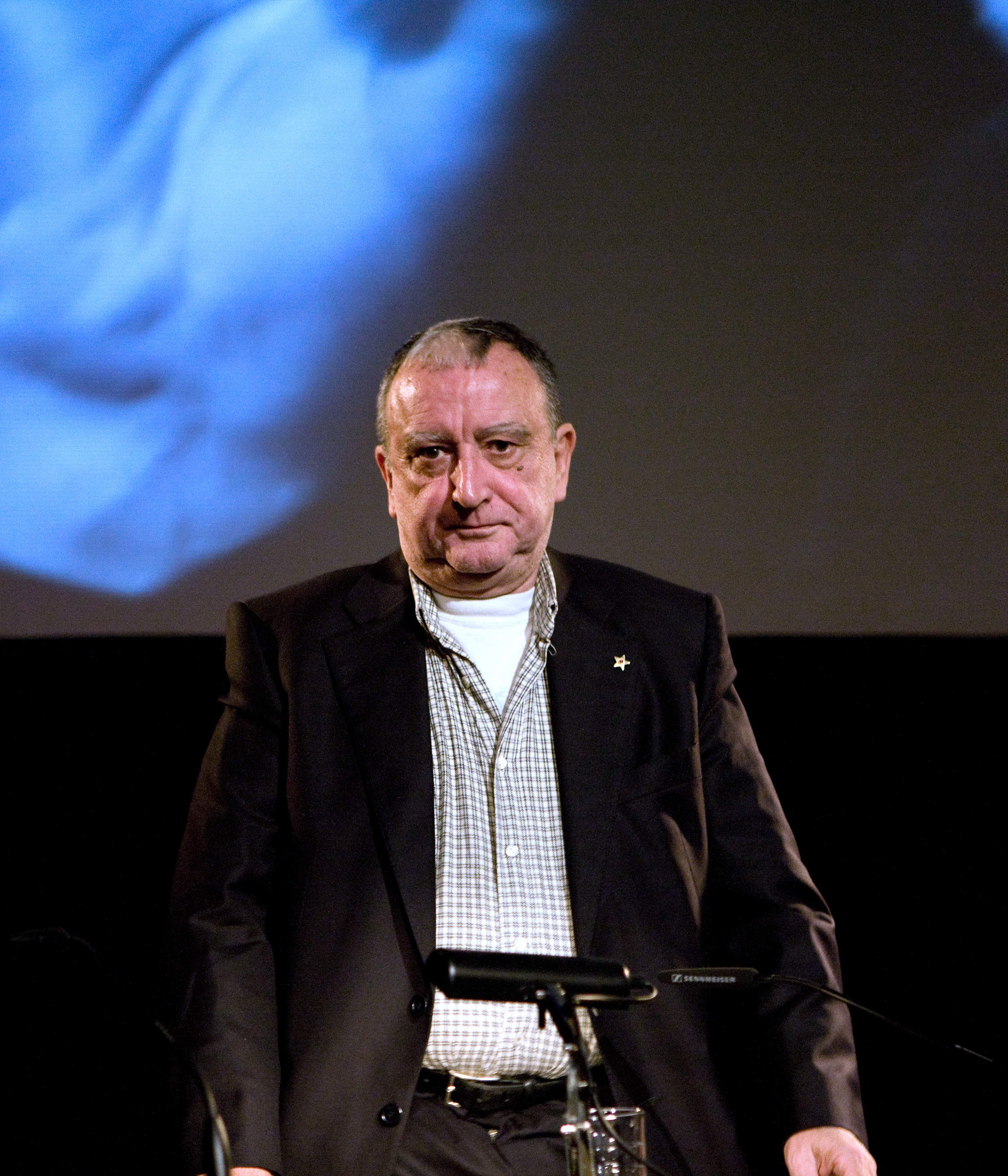 Rafael Chirbes at Cologne